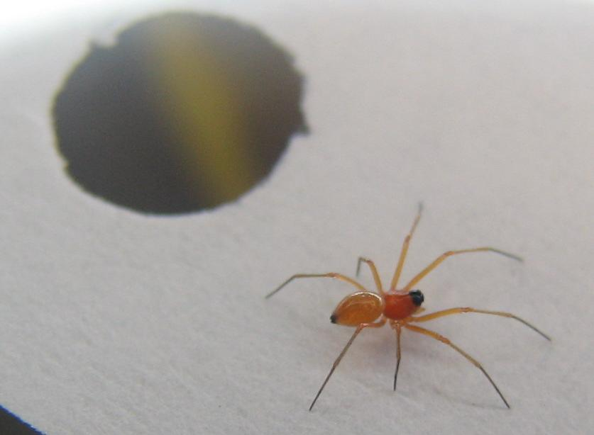 A spider of the family Linyphiidae, subfamily Erigoninae.